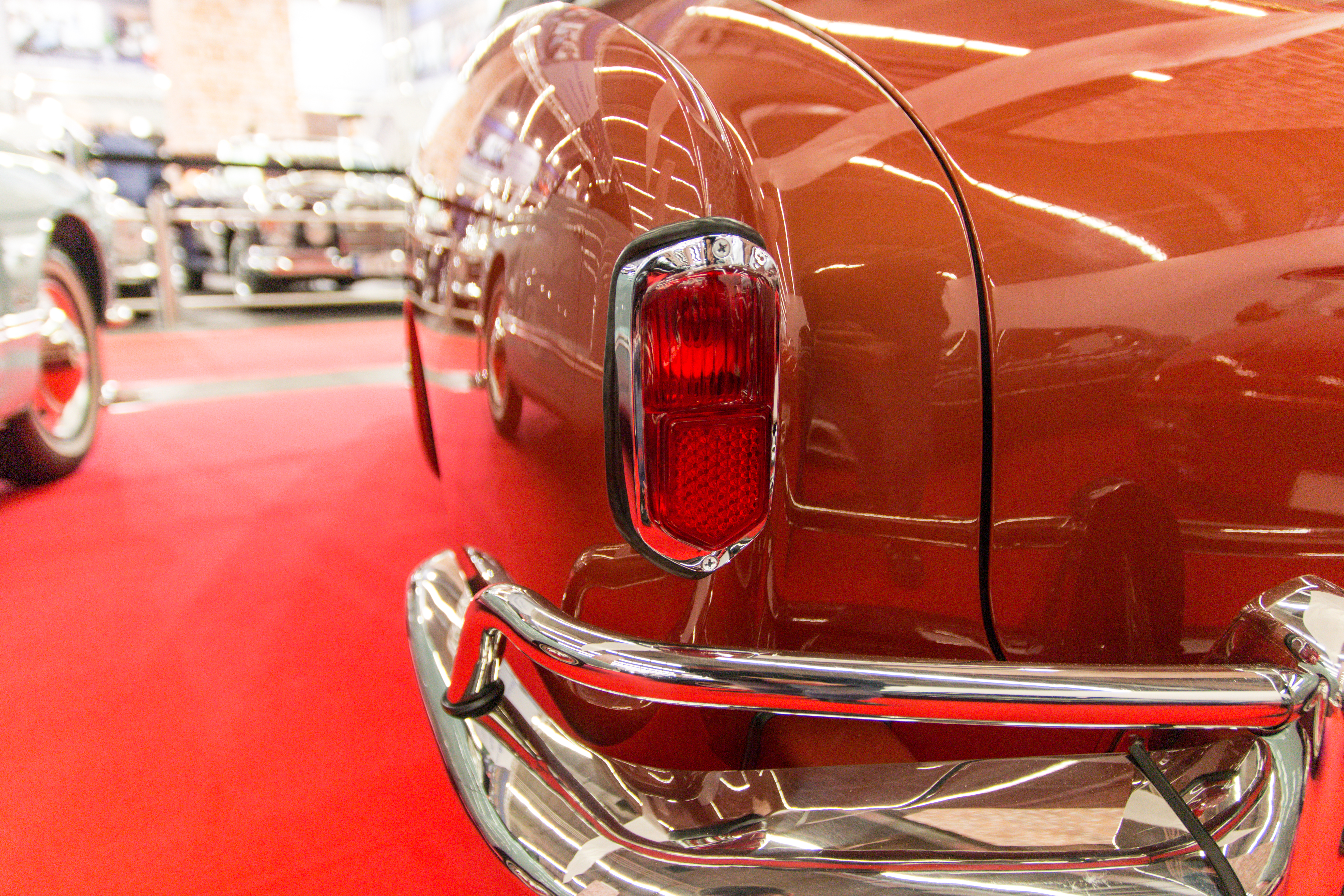 VW Karmann-Ghia Typ 14 1957